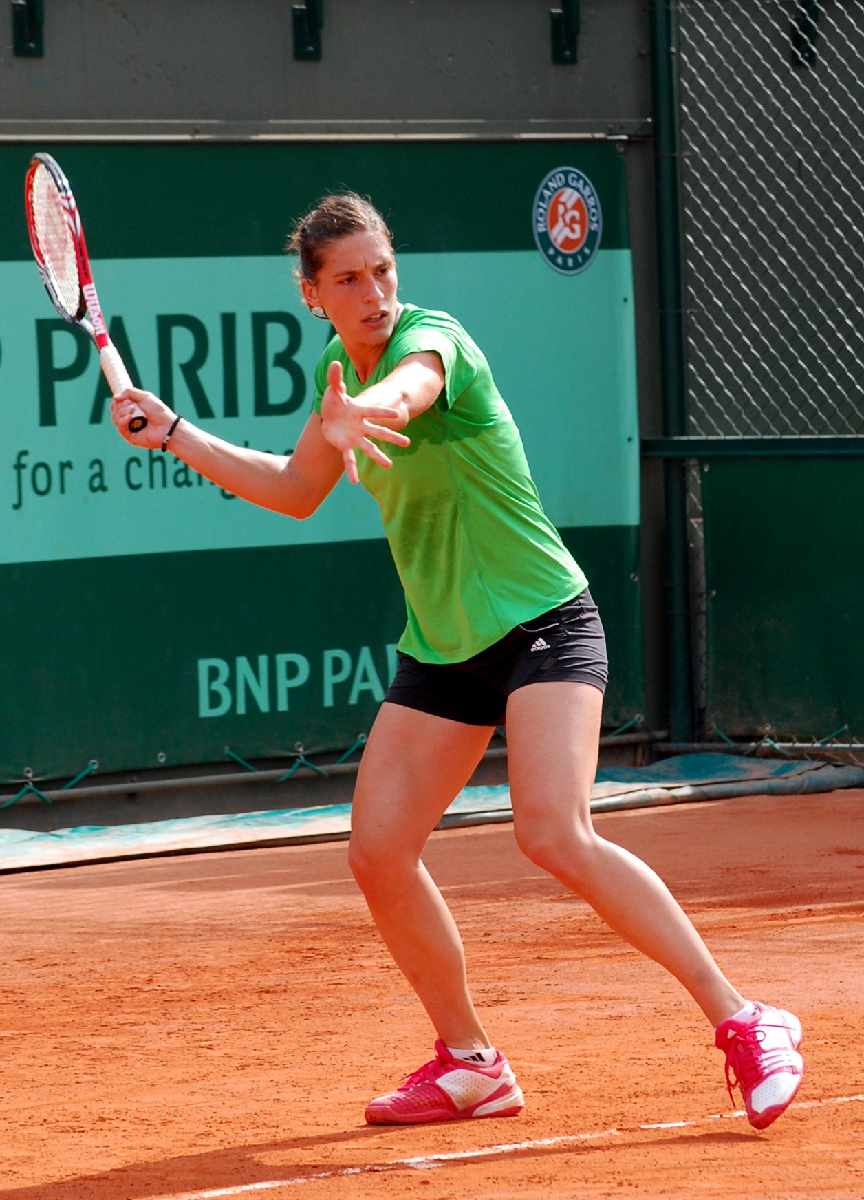 On the practice court. Roland Garros 2011.